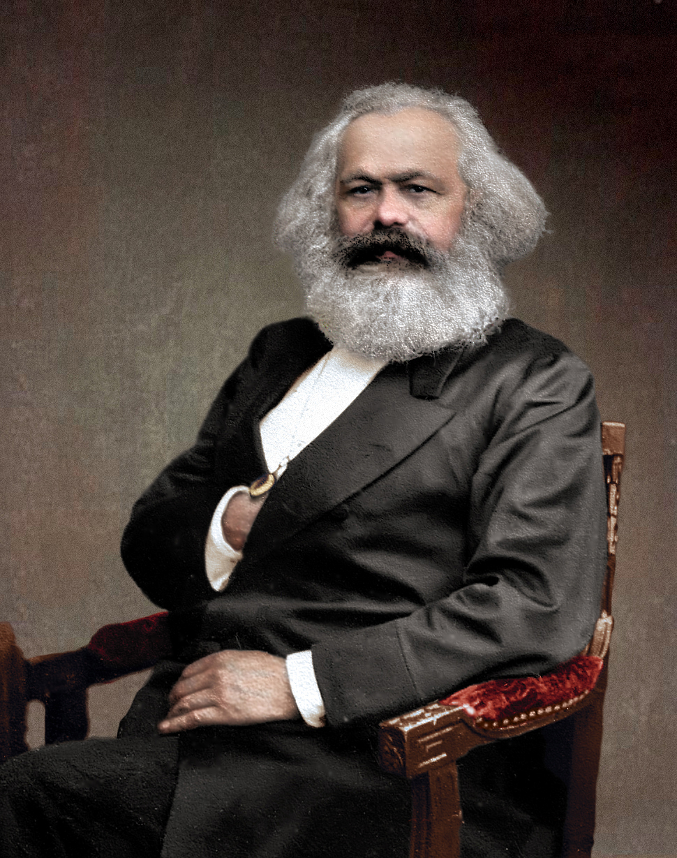 Karl Marx (1818-1883), philosopher and German politician.